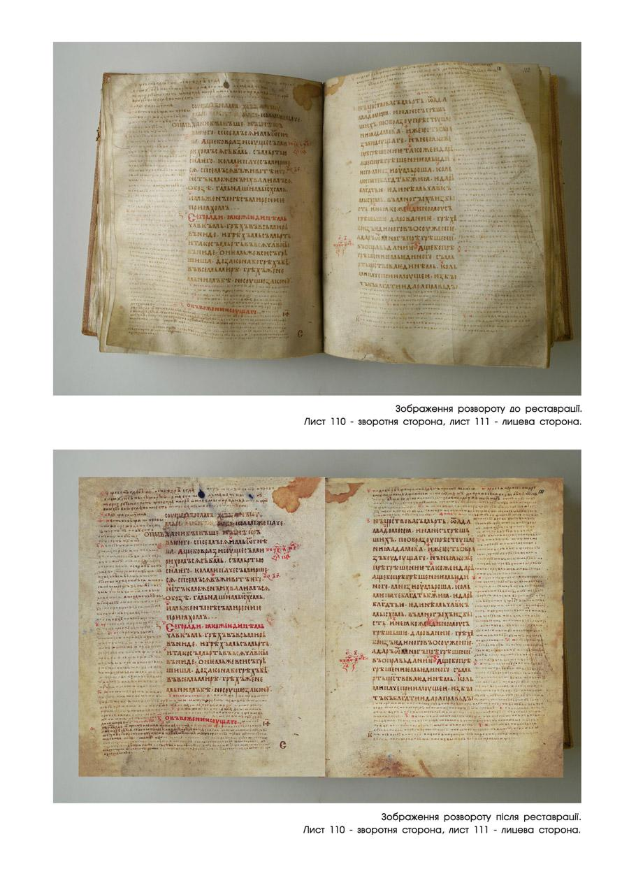 Kristinopolsky Apostle